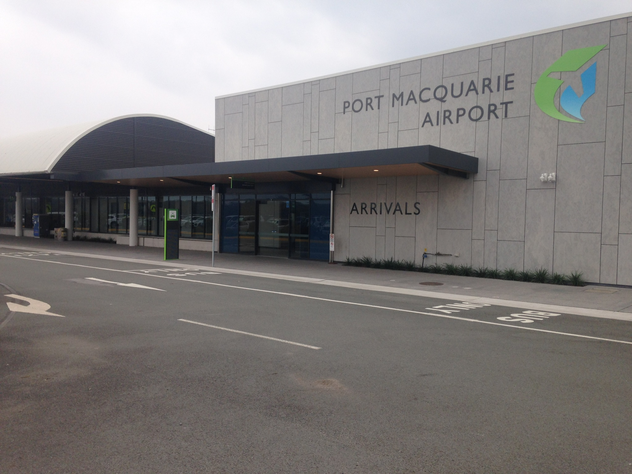 Entrance to airport at Port Macquarie, New South Wales